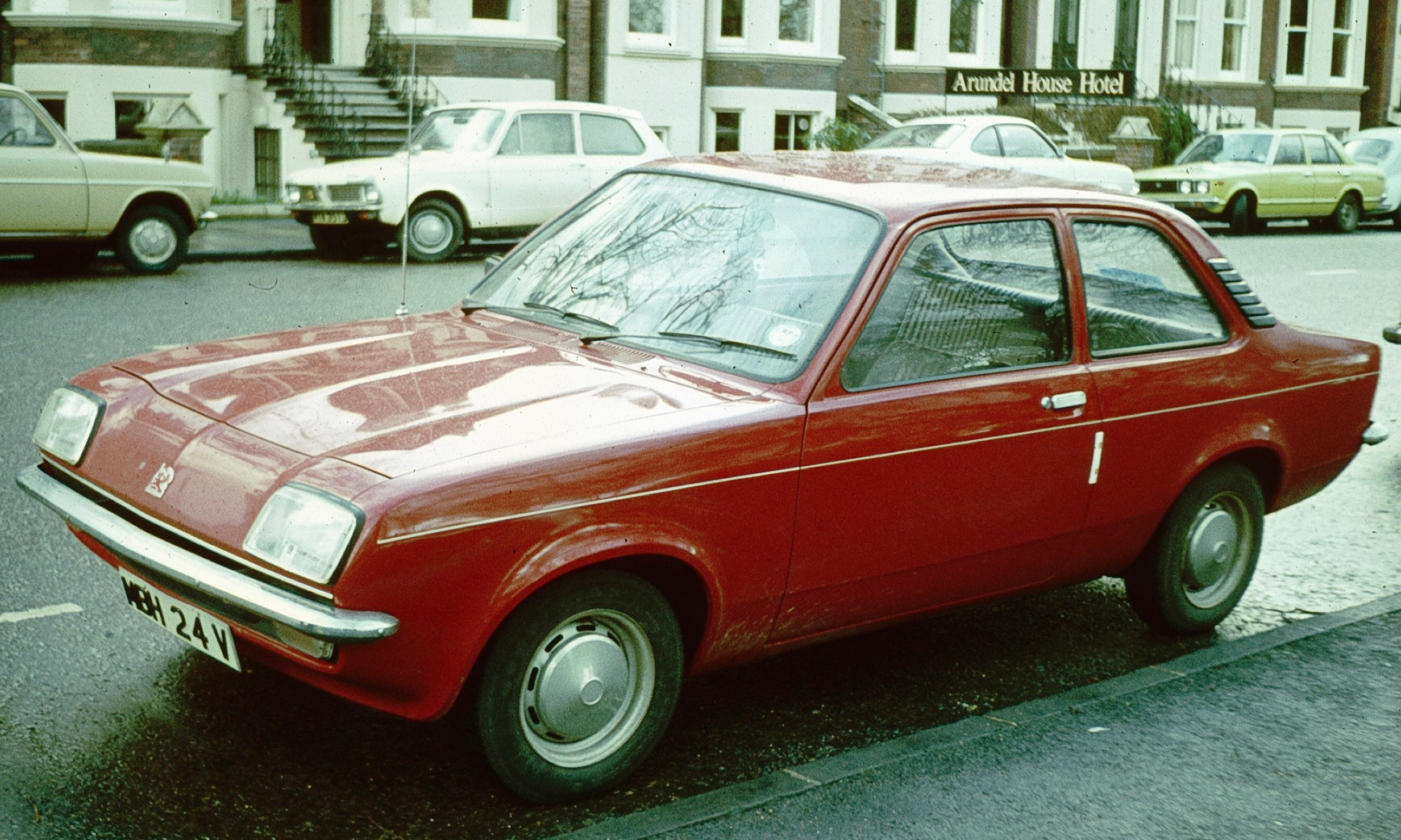 Vauxhall Chevette 2 door notchback. protruding headlamp covers and plastic covered extractor vents on the rear pillar identify this as a later version